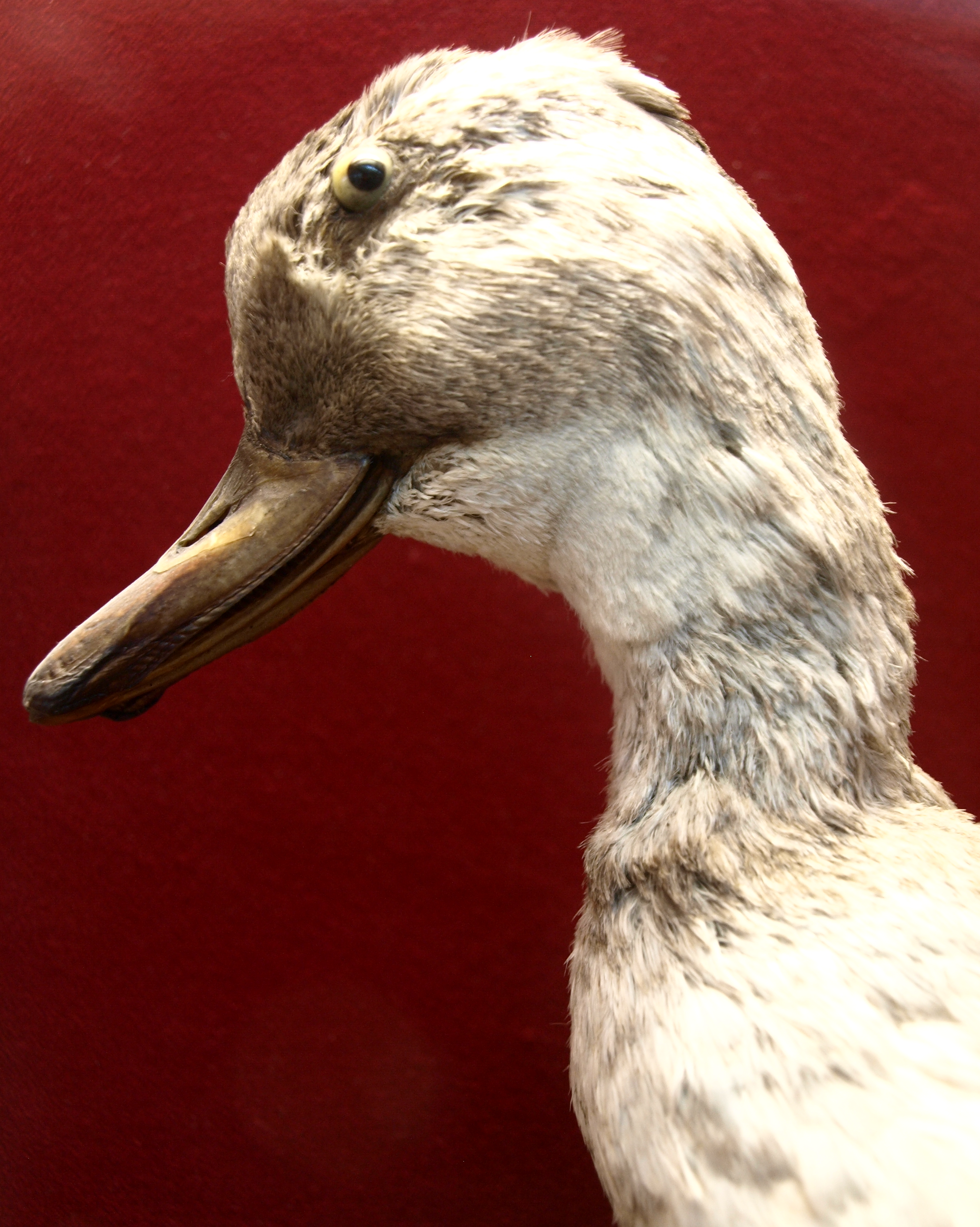 Close-up of a specimen of Camptorhynchus labradorius, on display at the Redpath Museum, Montreal.